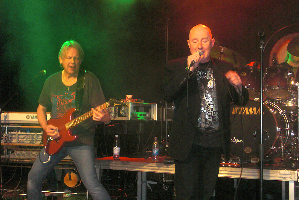 The Swedish metal band Leviticus at a reunion concert 2011 in Skövde in Sweden. To the left the leader and guitarist Björn Stigsson, and to the right the singer Peo Pettersson.